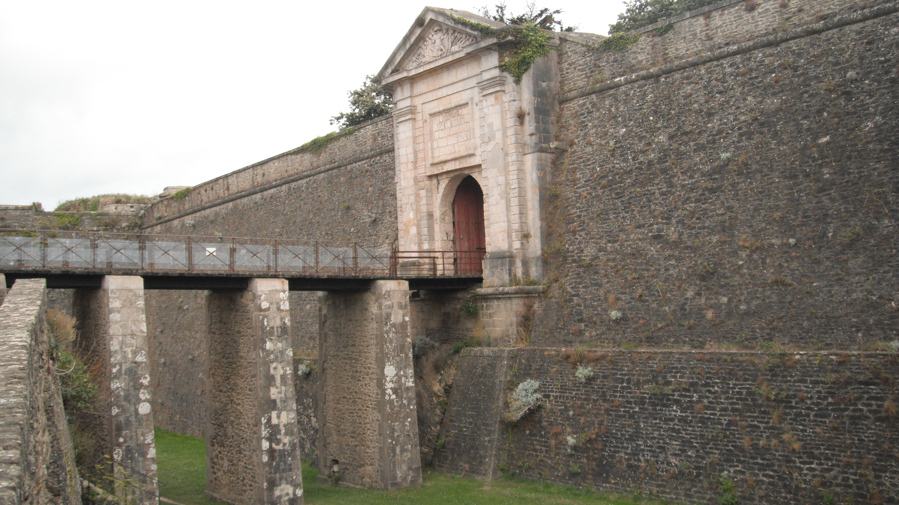 The Citadel Vauban.